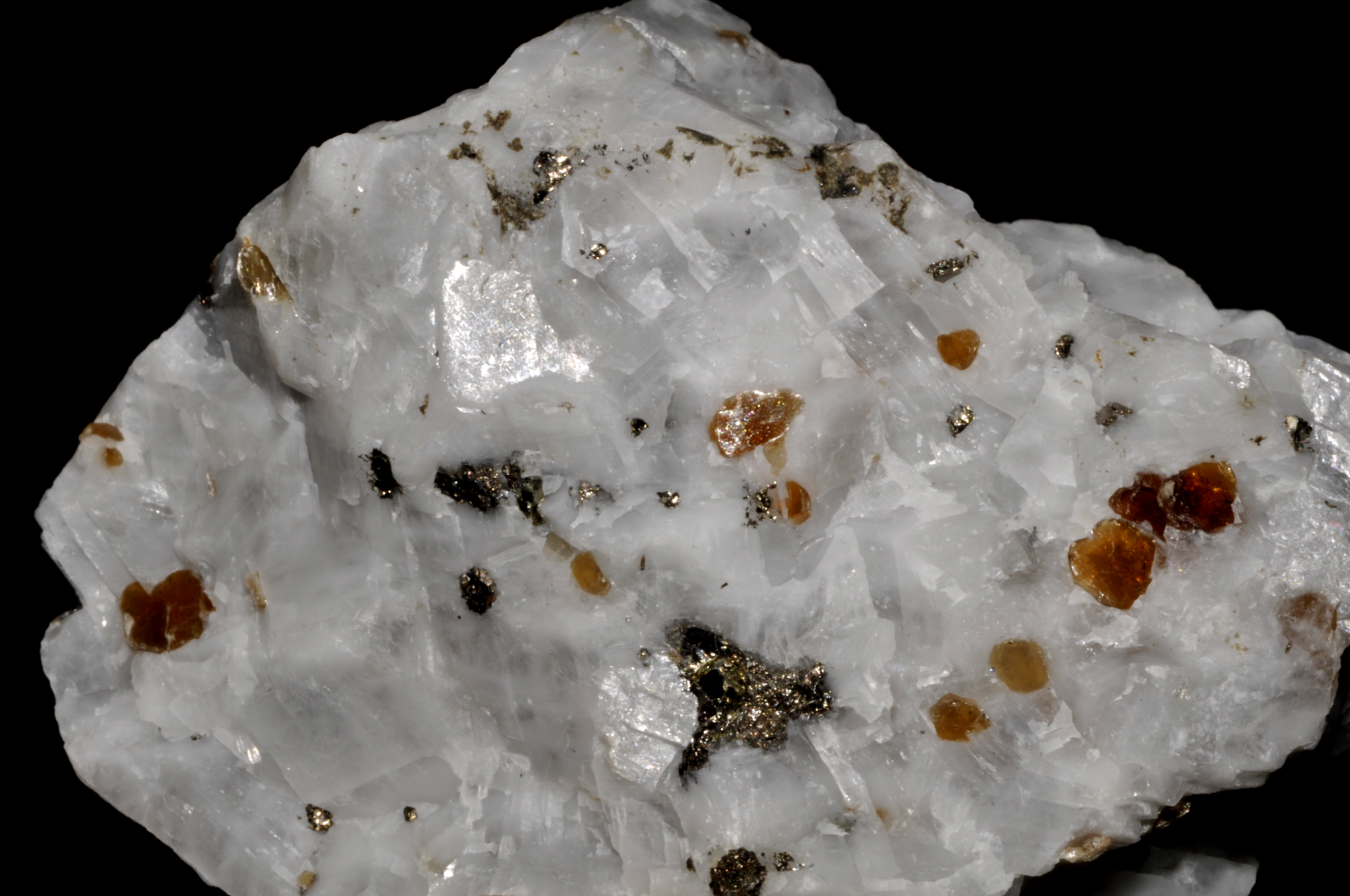 Crystals of phlogopite and pyrite